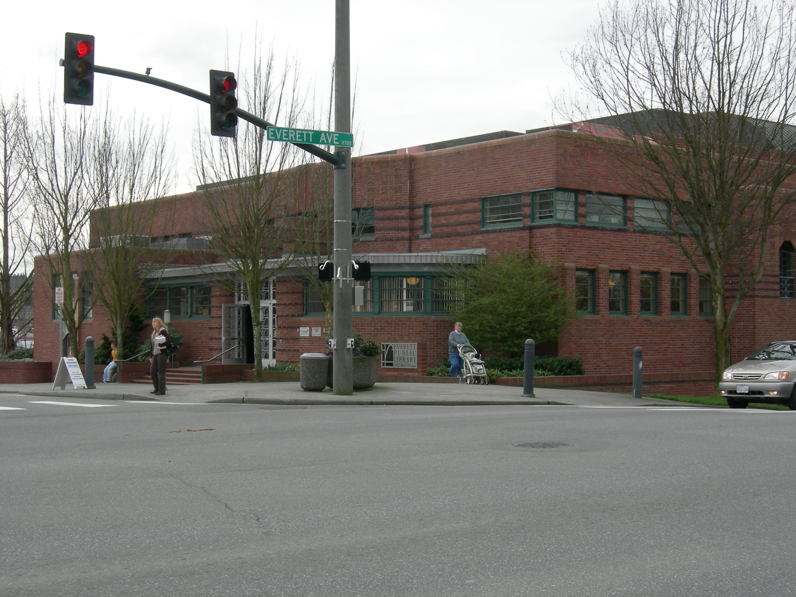 Everett Public Library, central library, Everett, Washington. Exterior. The building is listed on the State Register of Historic Places.